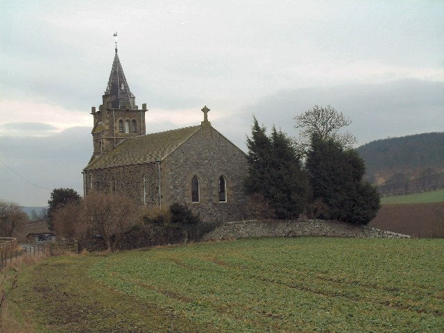 Dunbog Church. It looks like a church and it once was a church but this building is now a private residential property